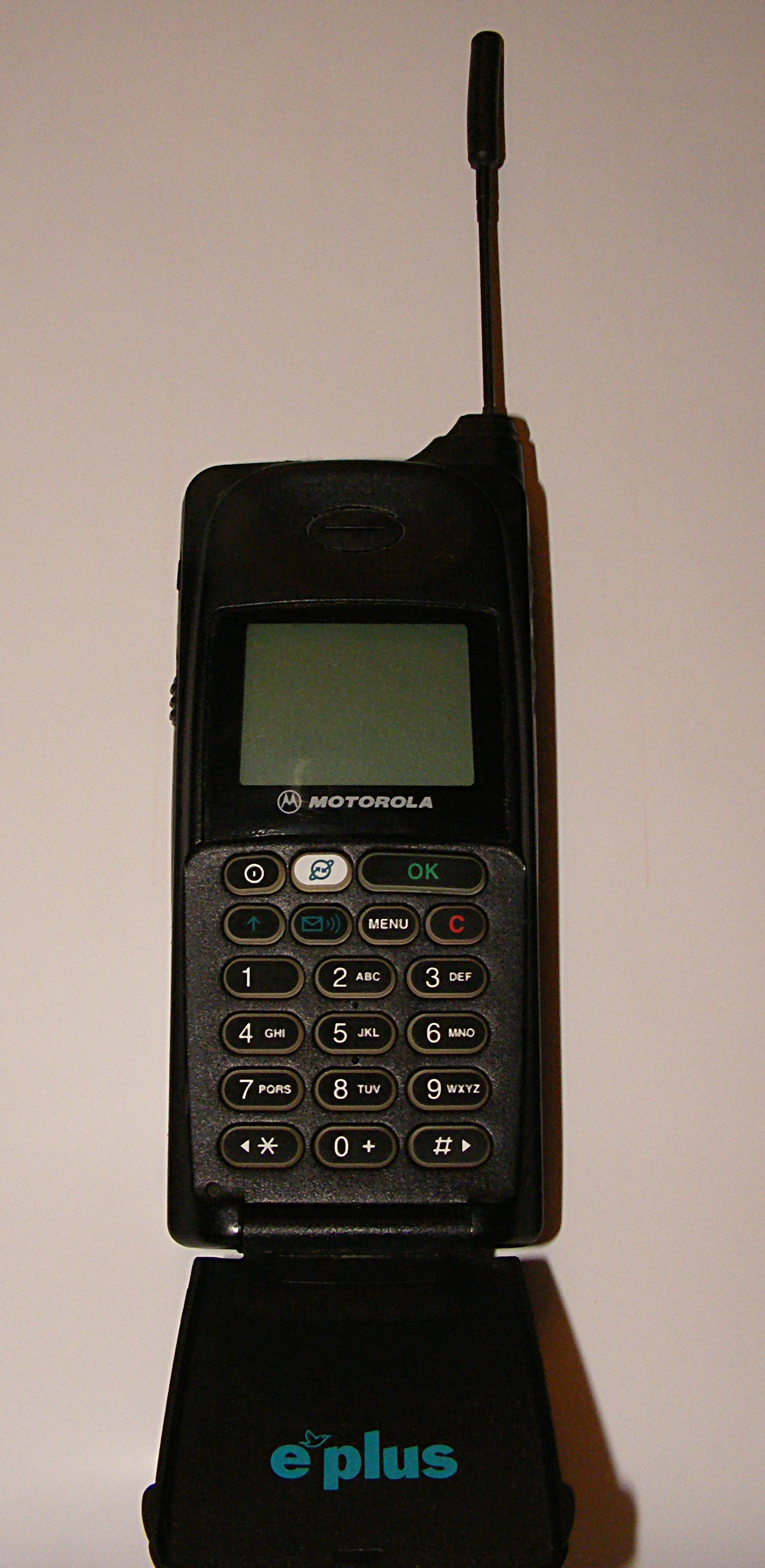 Motorola MicroTAC International 8900 Dual Band